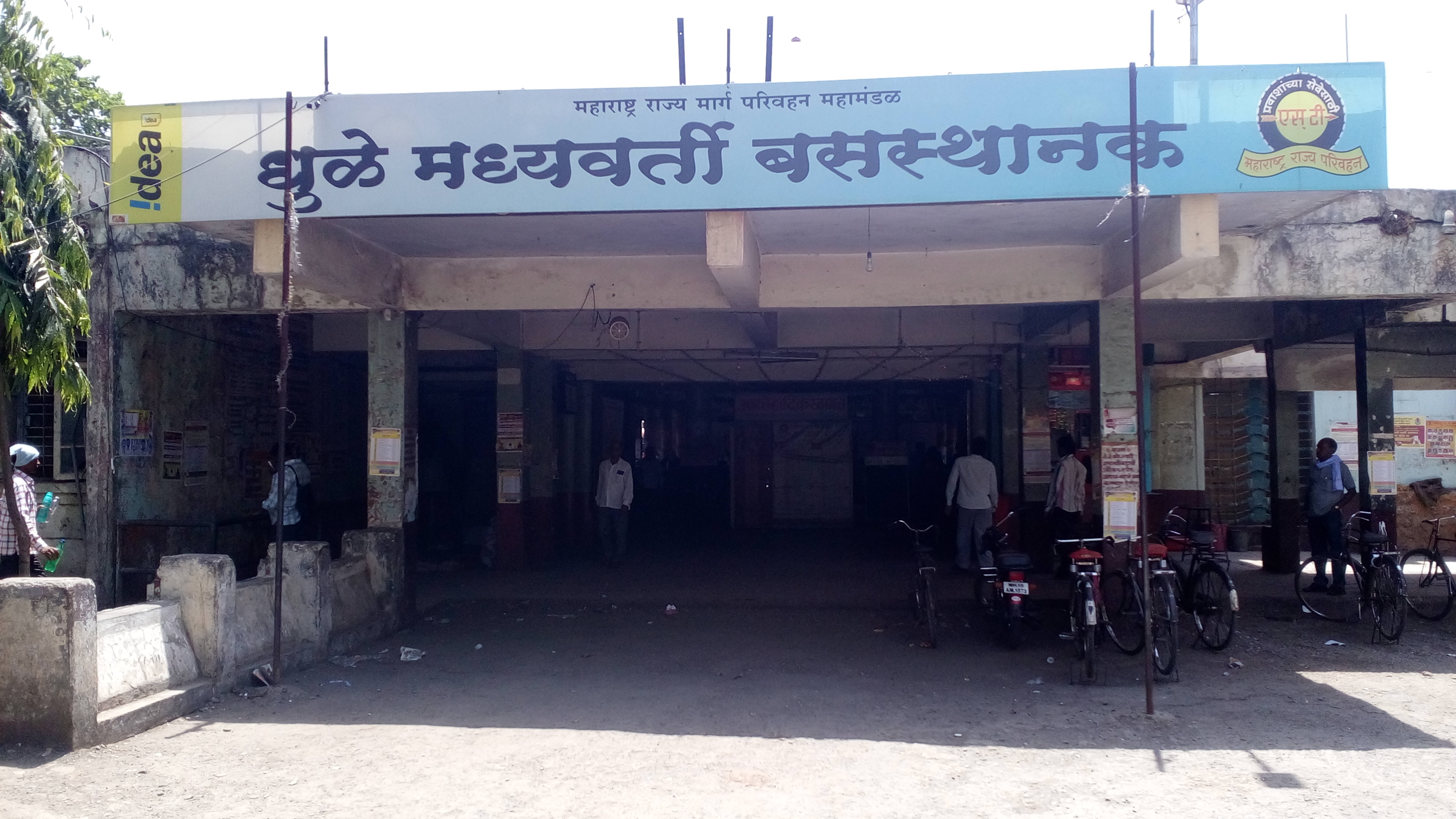 Central Bus Stand of Dhule. Contact: +91-2562-235375